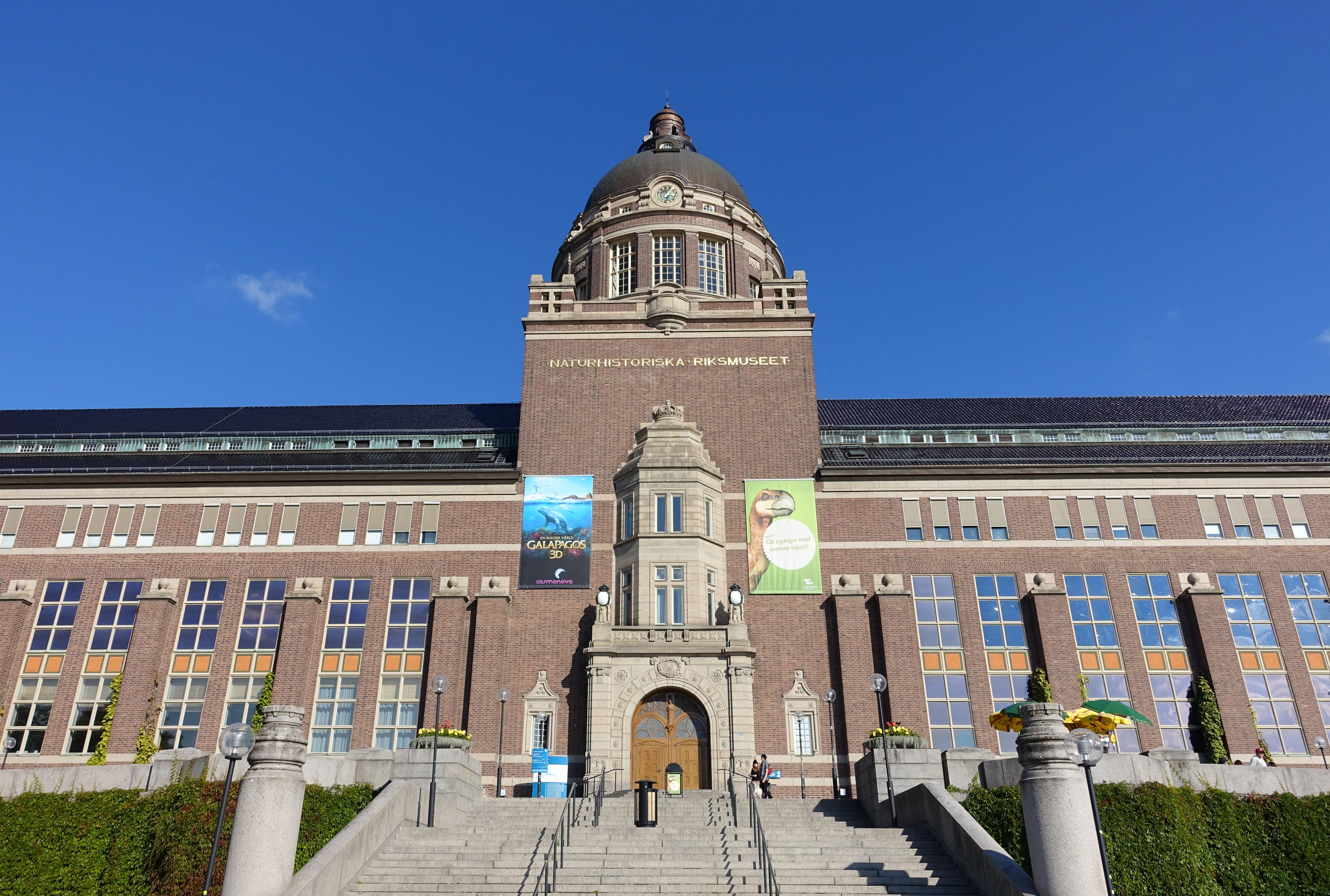 Exterior of the Swedish Museum of Natural History (Naturhistoriska riksmuseet) - Stockholm, Sweden.